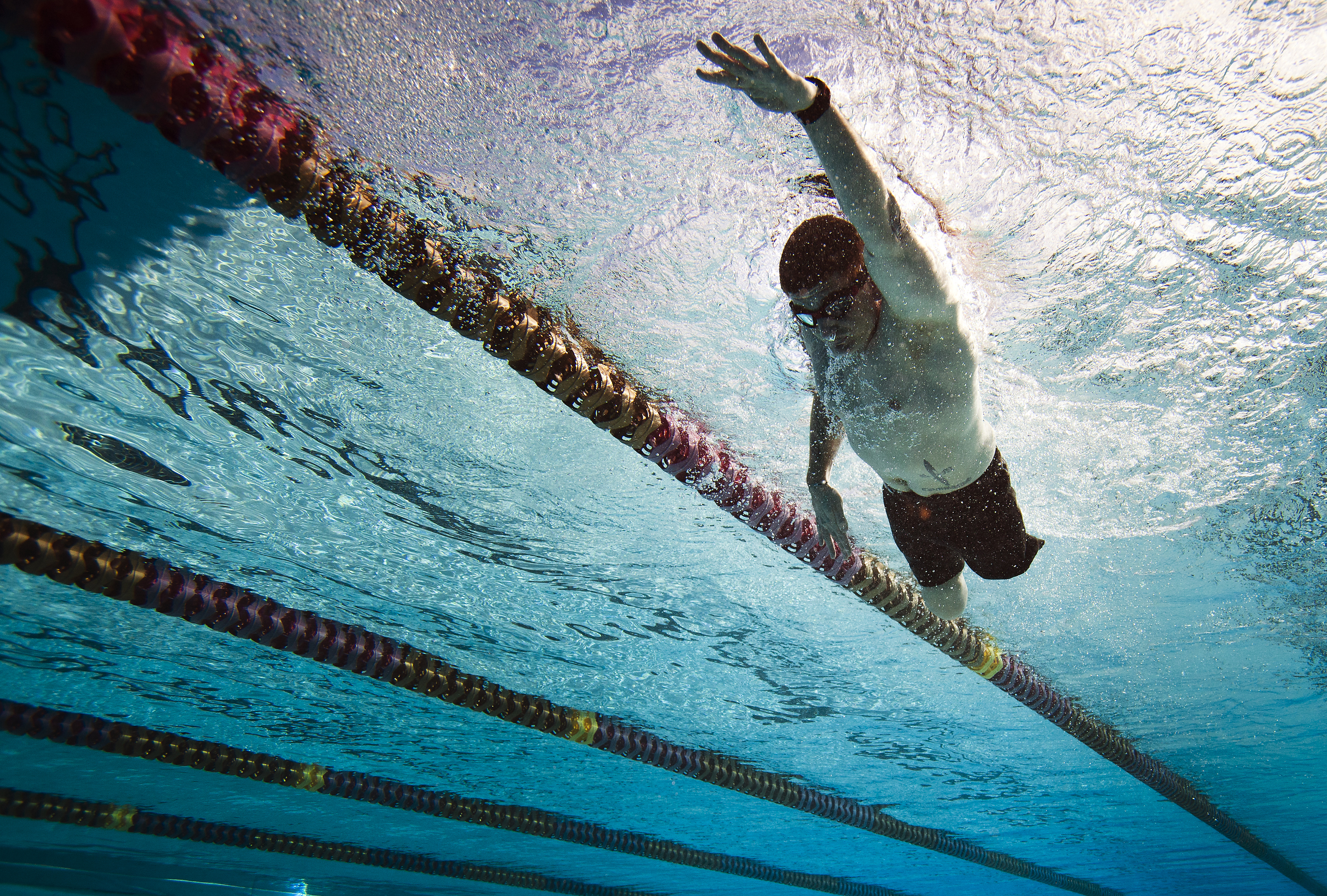 A Wounded Warrior swims laps during practice for the 2012 Marine Corps Trials at Marine Corps Base Camp Pendleton, Calif., Feb. 15, 2012. Wounded Warrior Marines, veterans and allies are competing in the second annual trials, which include swimming, wheelchair basketball, sitting volleyball, track and field, archery and shooting. The top 50 performing Marines will earn the opportunity to compete in the Wounded Warrior Games in Colorado Springs in May. (U.S. Marine Corps photo by Lance Cpl. Chelsea Flowers)